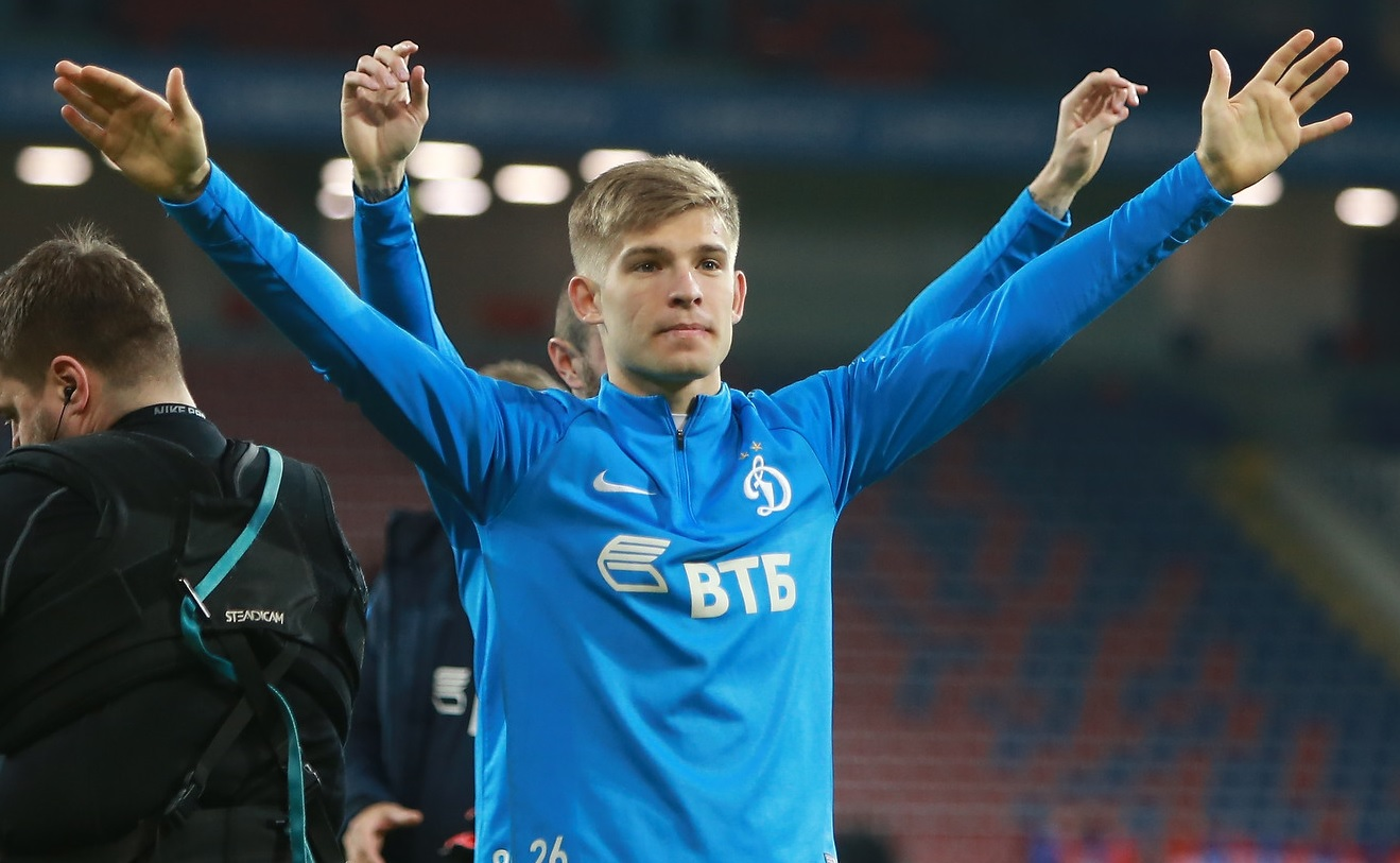 Nikita Kalugin with FC Dynamo Moscow during the game against PFC CSKA Moscow.